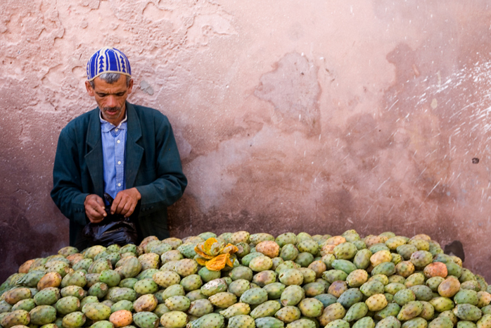 Prickly pears (Opuntia ficus-indica) sold in Morocco.